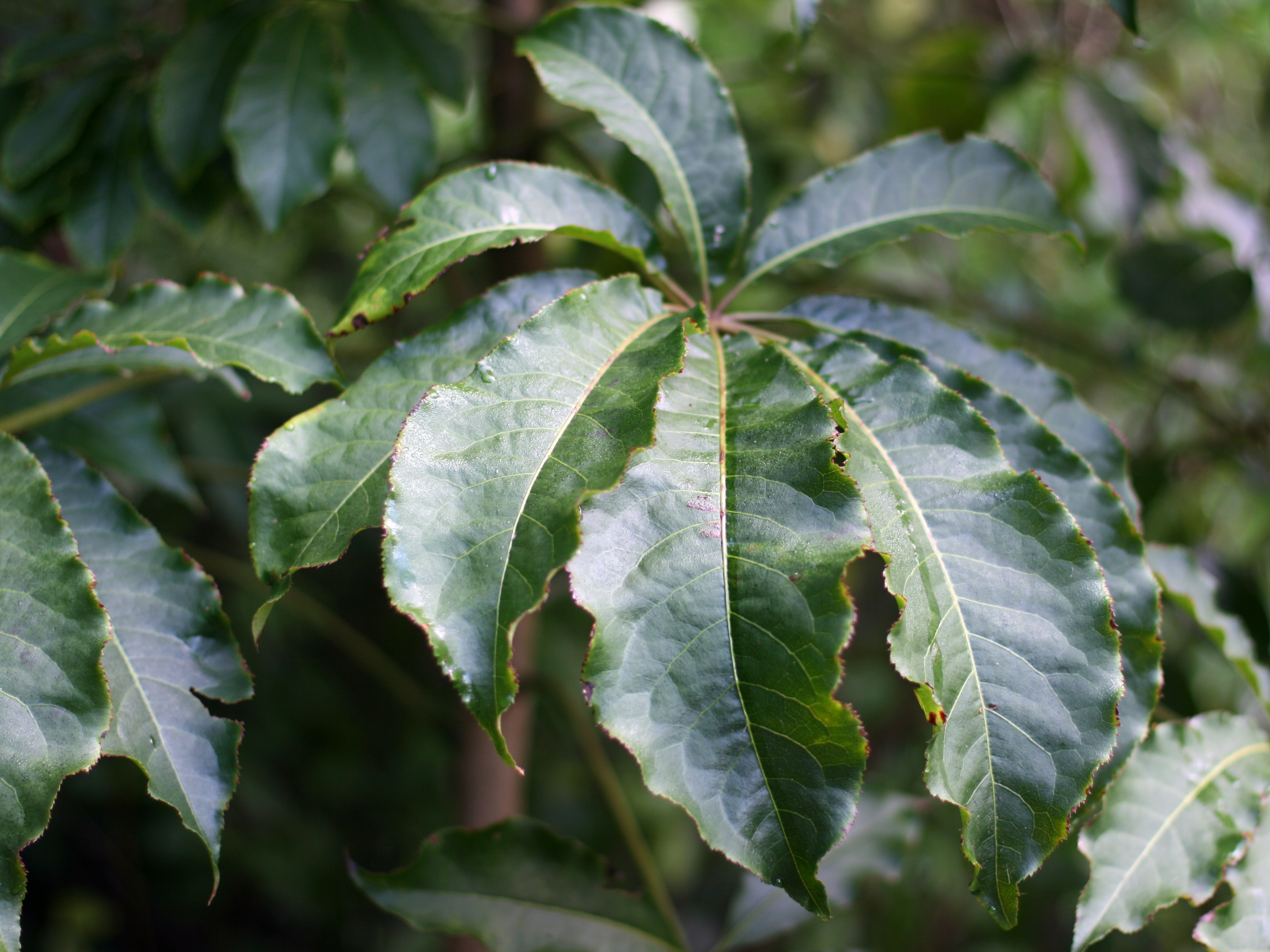 Leaf of a young Patē (Schefflera digitata) in regenerating native forest at Mangemangeroa Reserve, Howick, Auckland.